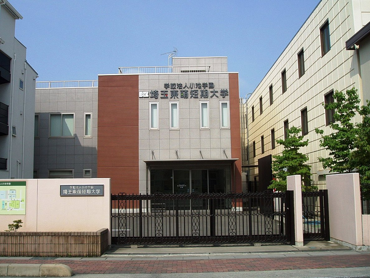 Main entrance to Saitama Toho Junior College located in Koshigaya, Saitama, Japan.